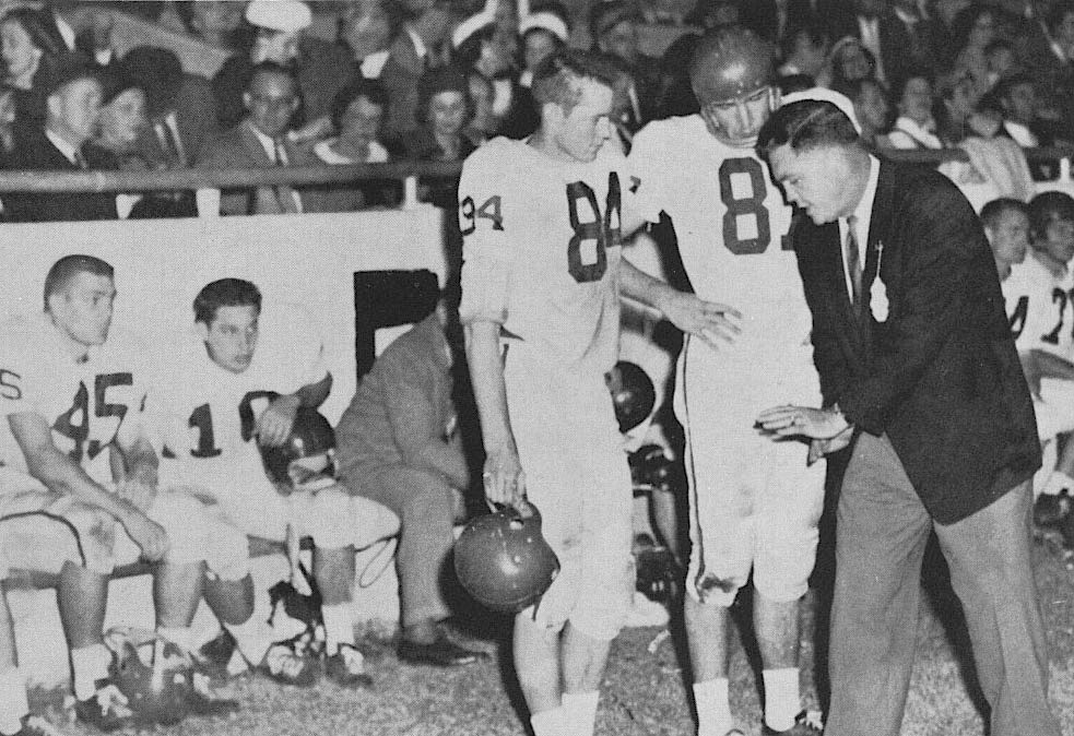 Members of the 1957 Houston Cougars football team confer with head coach Hal Lahar during an American football game with Ole Miss at Mississippi Veterans Memorial Stadium in Jackson, Mississippi. Players pictured are Bob Borah (#84), Bob Blevins (#87), Don Brown (#45), and Sammy Blount (#10).